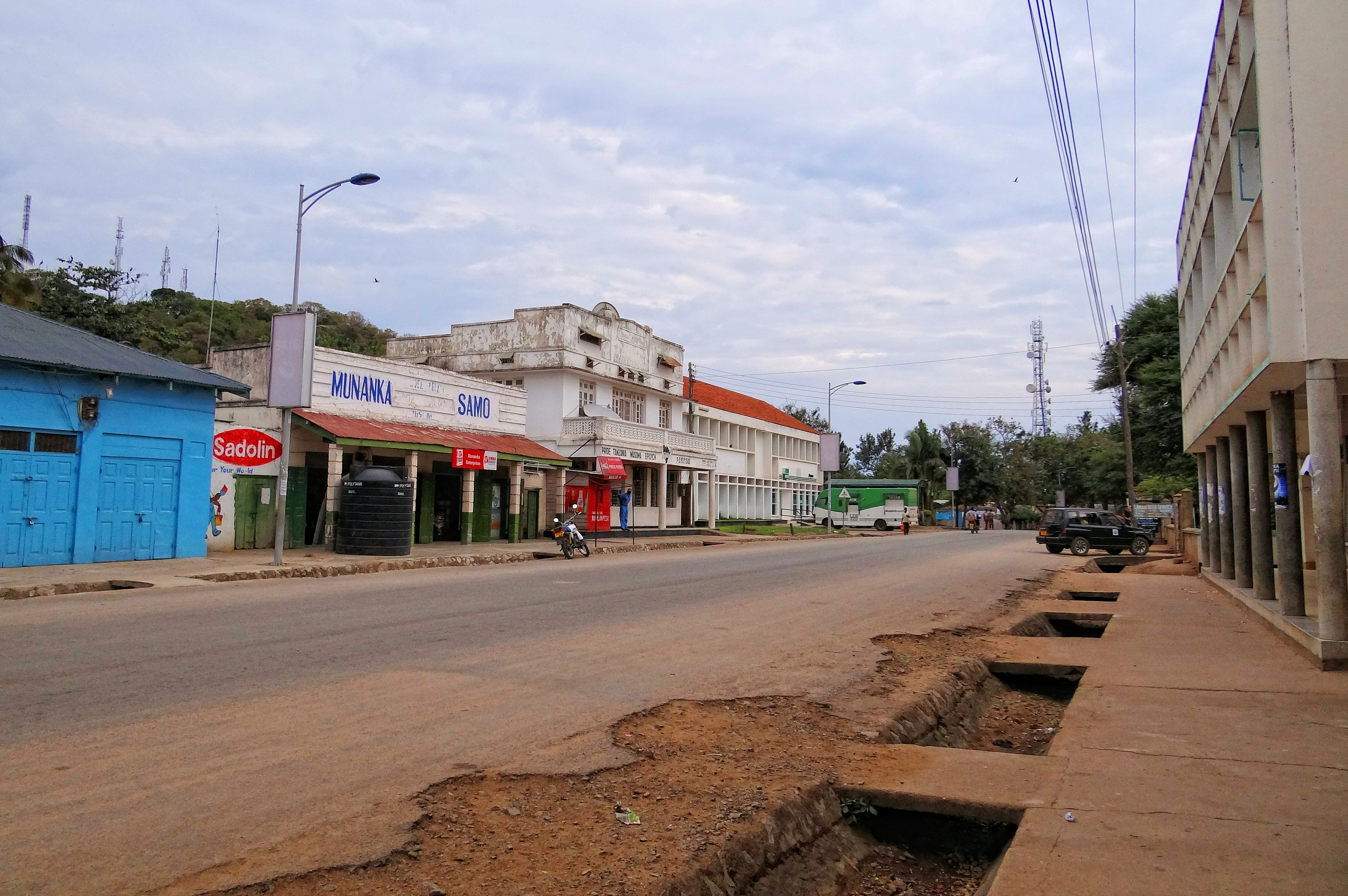 Mkendo Road through the Tanzanian town of Musoma, on the eastern shore of Lake Victoria. This is the main road through the town, and one of the few streets that was more or less covered with tarmac in 2012.